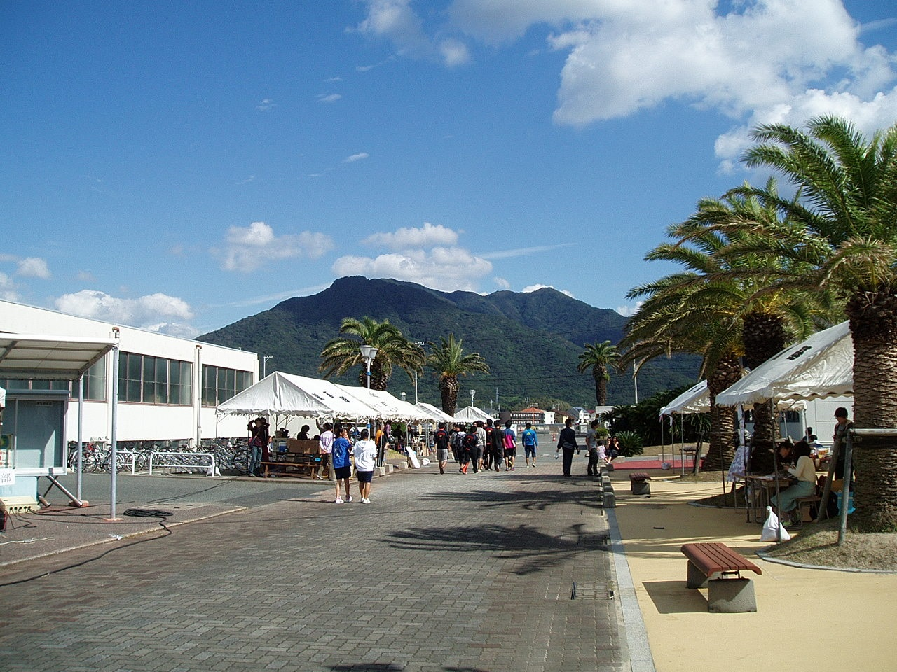 Campus view toward the main entrance, the National Fisheries University (Japan), located in Shimonoseki, Yamaguchi, Japan. Personal faces are masked.